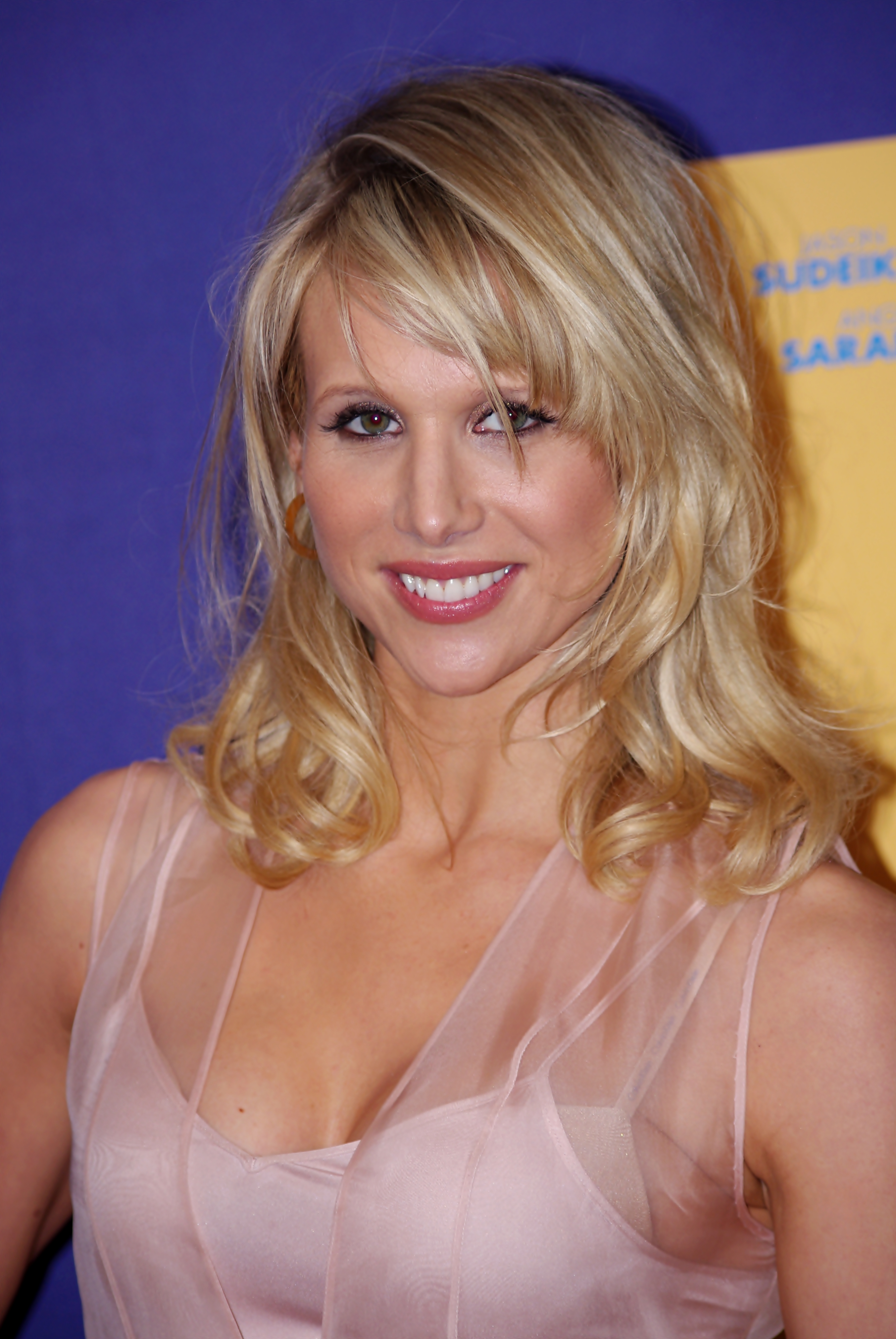 Lucy Punch at the 2011 Tribeca Film Festival premiere of A Good Old Fashioned Orgy.